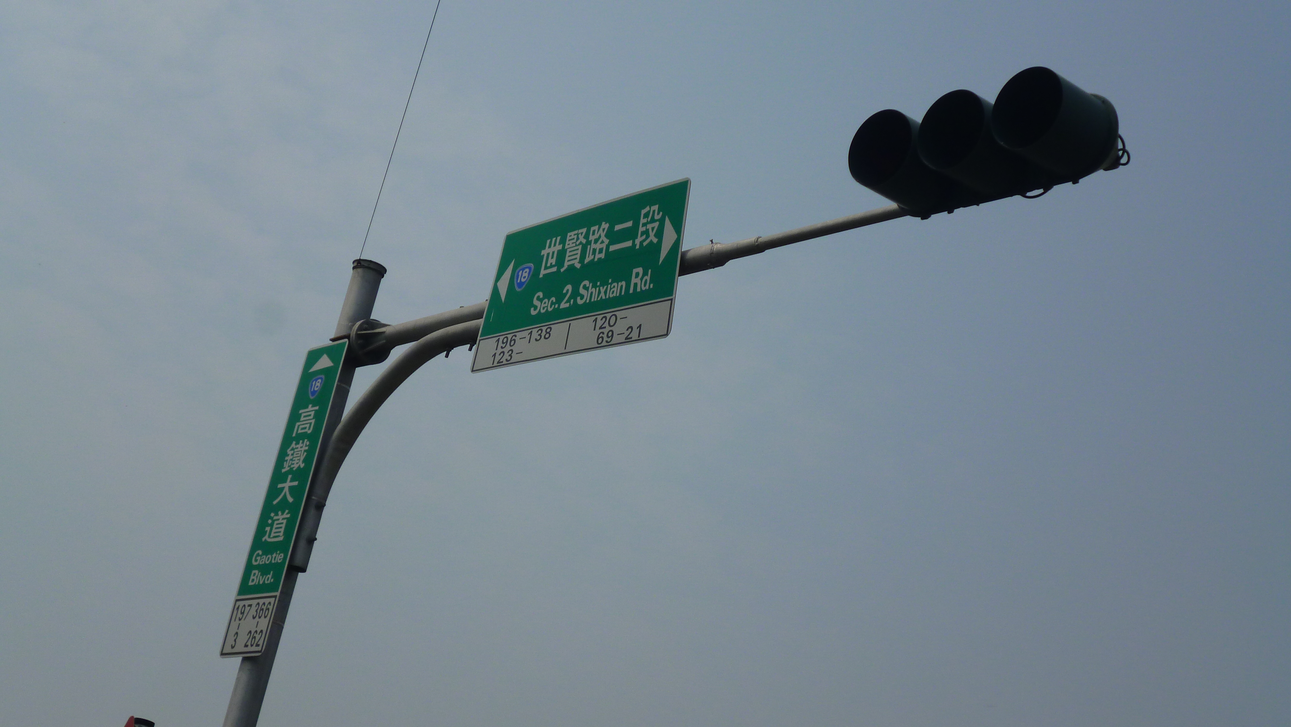 Sign of Gaotie Blvd. and Shixian Rd., West District, Chiayi City.